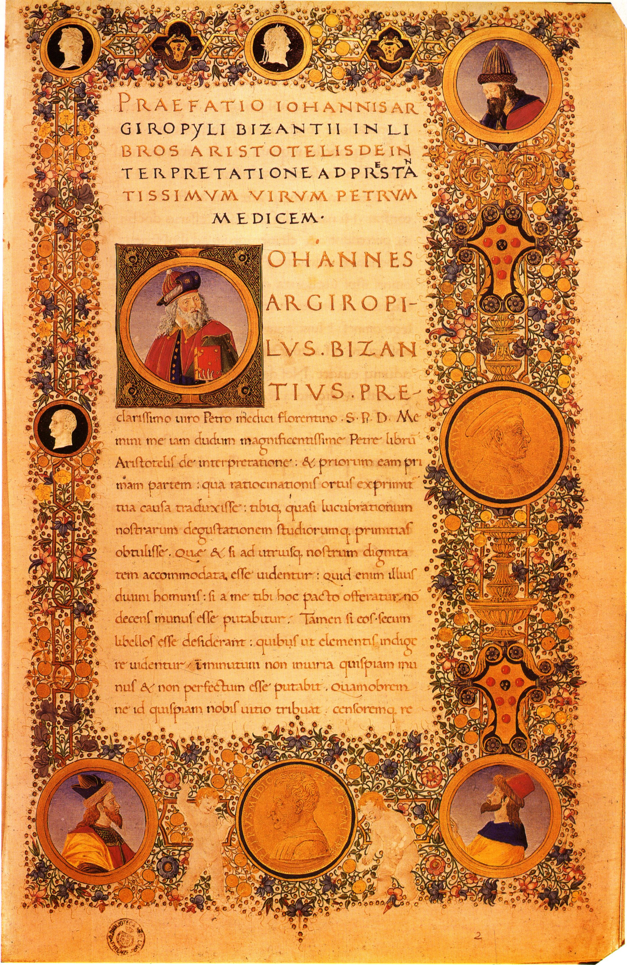 John Argyropoulos, Preface to his Latin translation of Aristotle’s De Interpretatione, in the dedication copy for Piero di Cosimo de’ Medici. Handschrift des 15. Jahrhunderts. Florenz, Biblioteca Medicea Laurenziana, Plut. 71.7, fol. 2r.